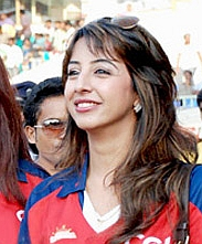 Sanjjanna Galrani at a Celebrity Cricket League match.